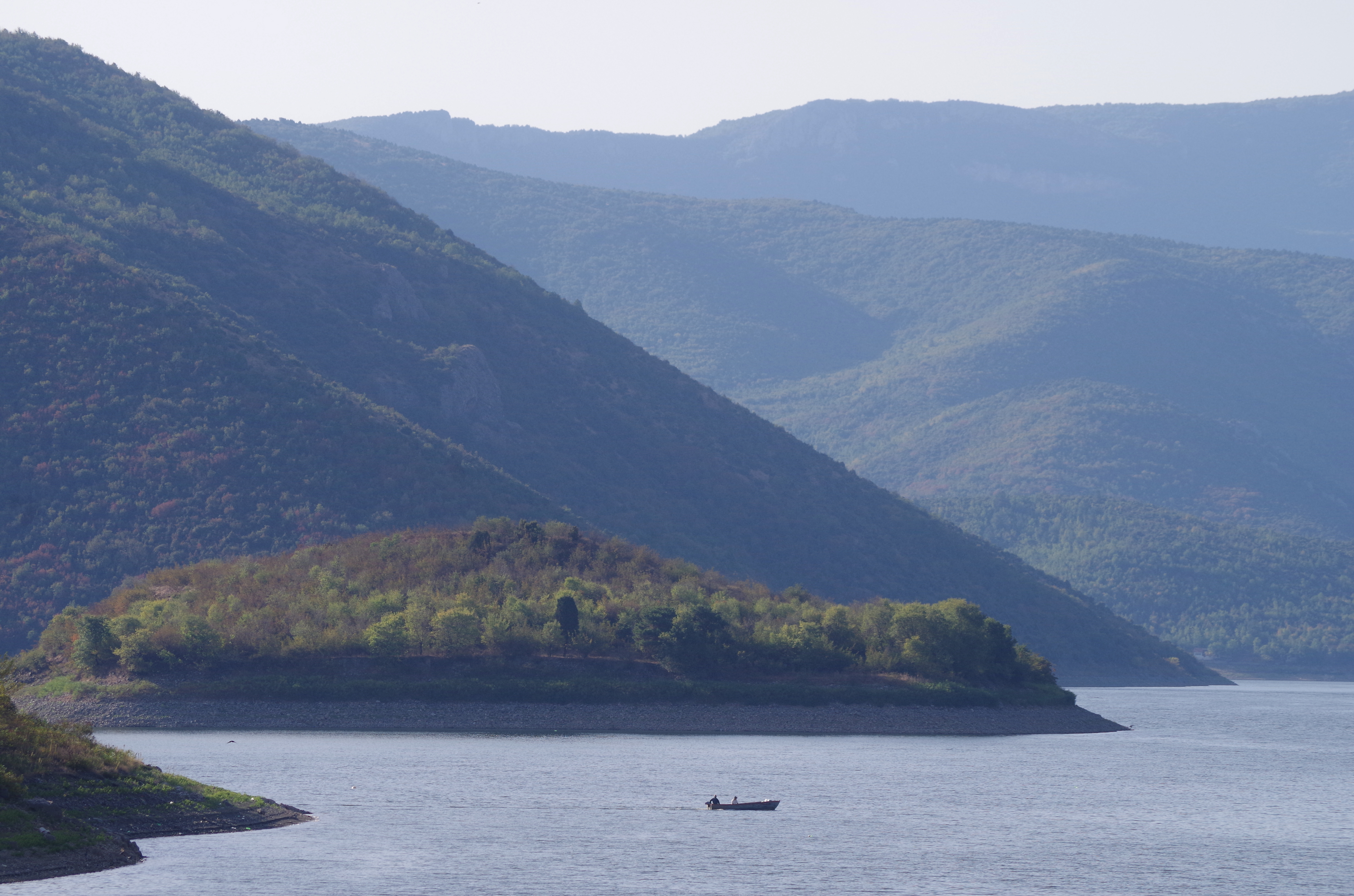 Lake Tikveš